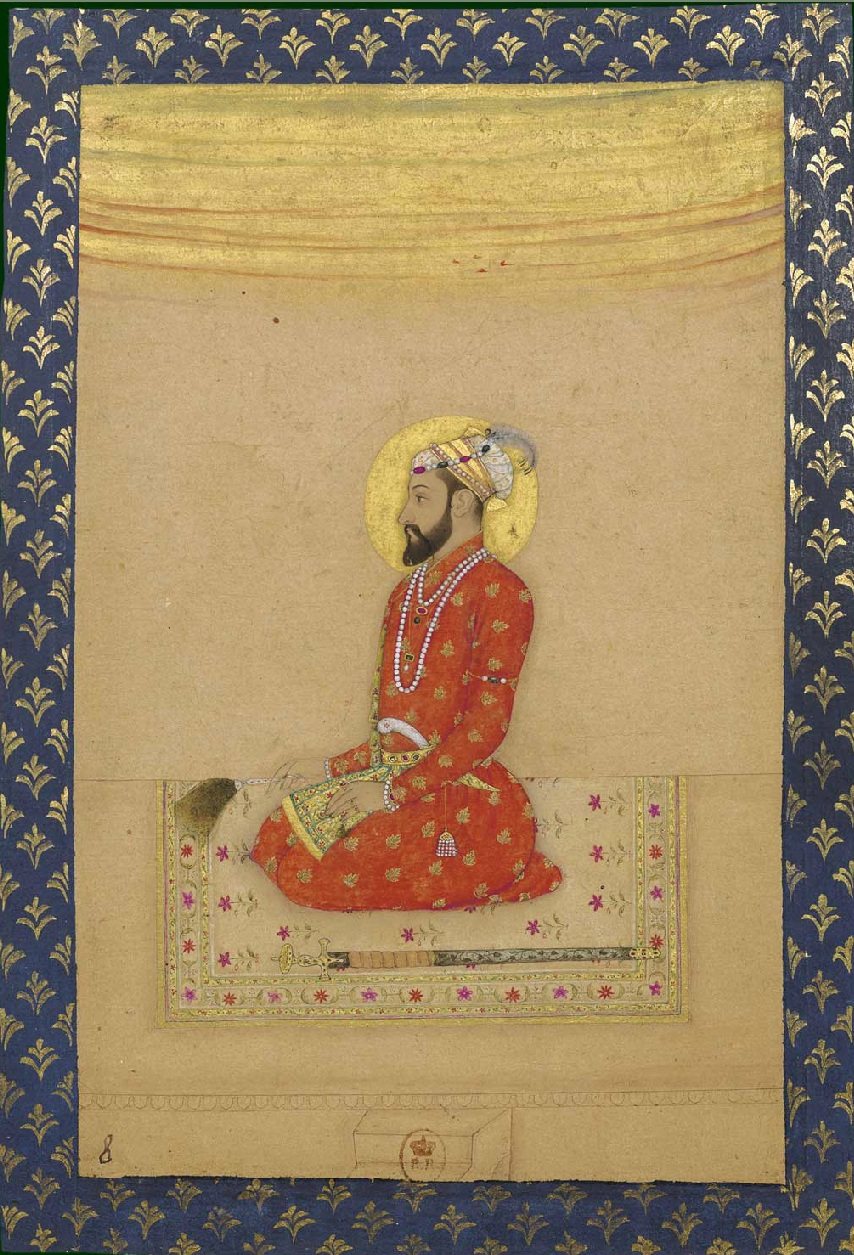 Bahadur Shah, ca. 1670, Bibliothèque nationale de France, Paris